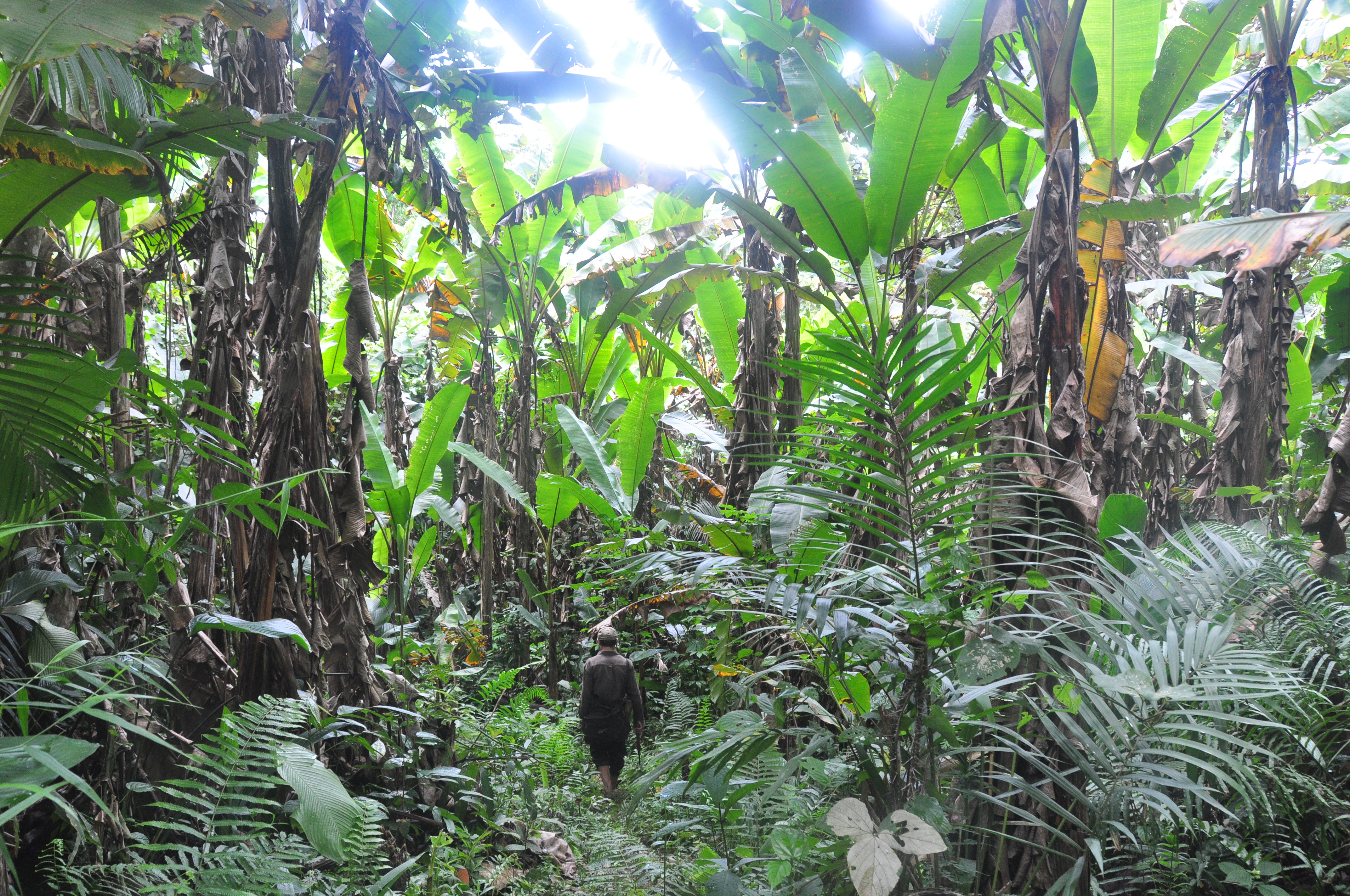 Forest landscape in the Nam Ha National Protected Area, Laos